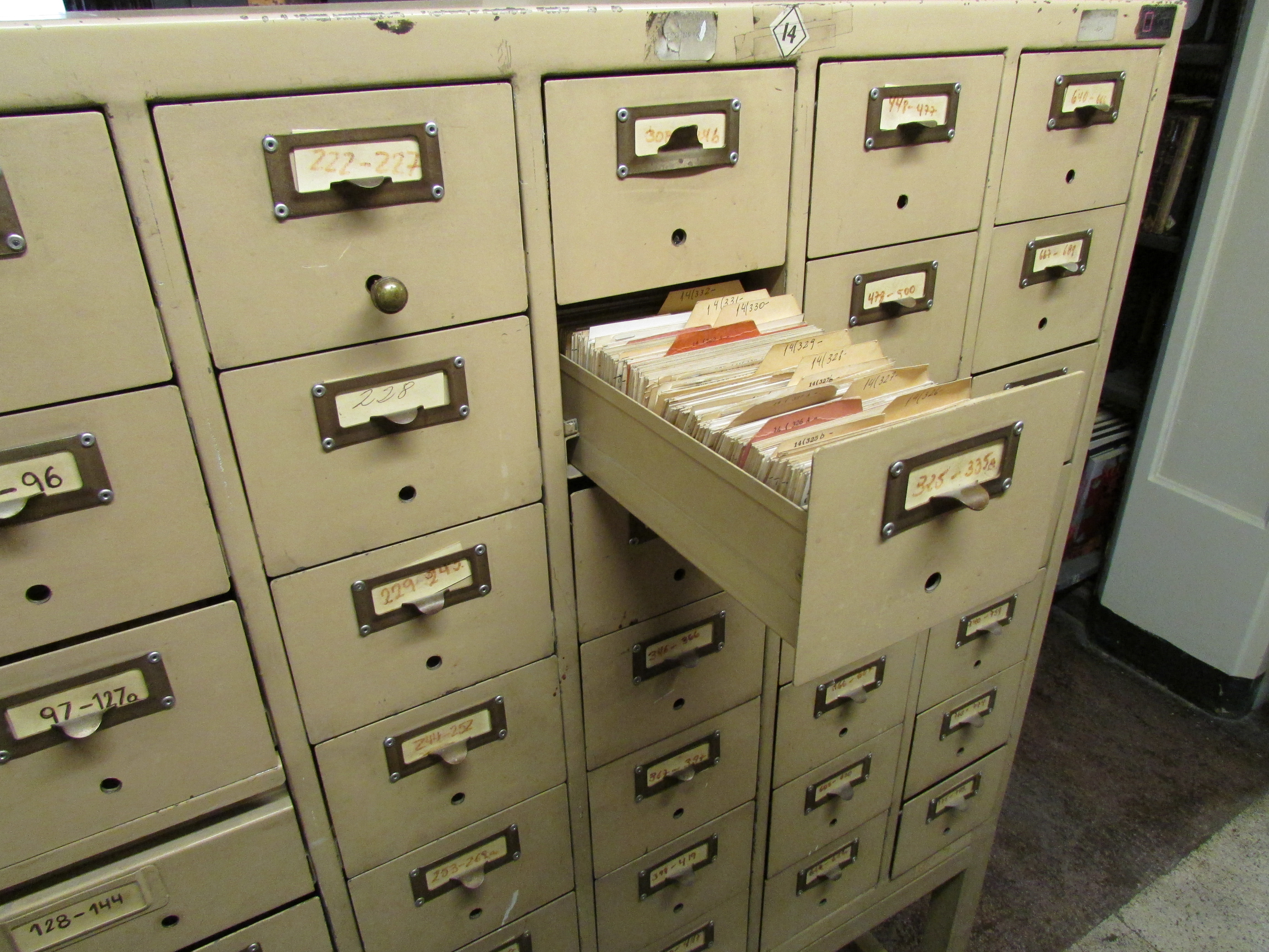 Fondo General (General Fund) interior where shelves and volumes to be lend in the "Sala Gabriela Mistral" (Gabriela Mistral Room) are located. This is a photo of a national monument in Chile: 102